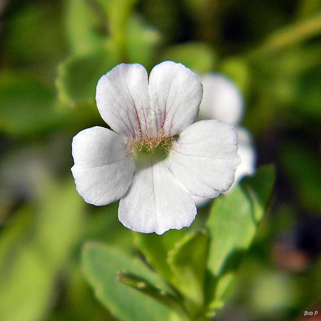 Axilflower is a small wetlands wildflower and this particular subspecies is endemic to peninsular Florida. This is another former member of the Scrophulariaceae (figwort family) that appears to have been reassigned to the Plantaginaceae (plantain family). The flowers are about 10mm long. This one lives at Sweetbay Natural Area in Palm Beach County, Florida, near a small colony of sprites.